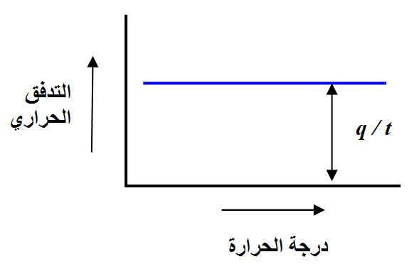 DSC curve, the relation between heat flow and temperature